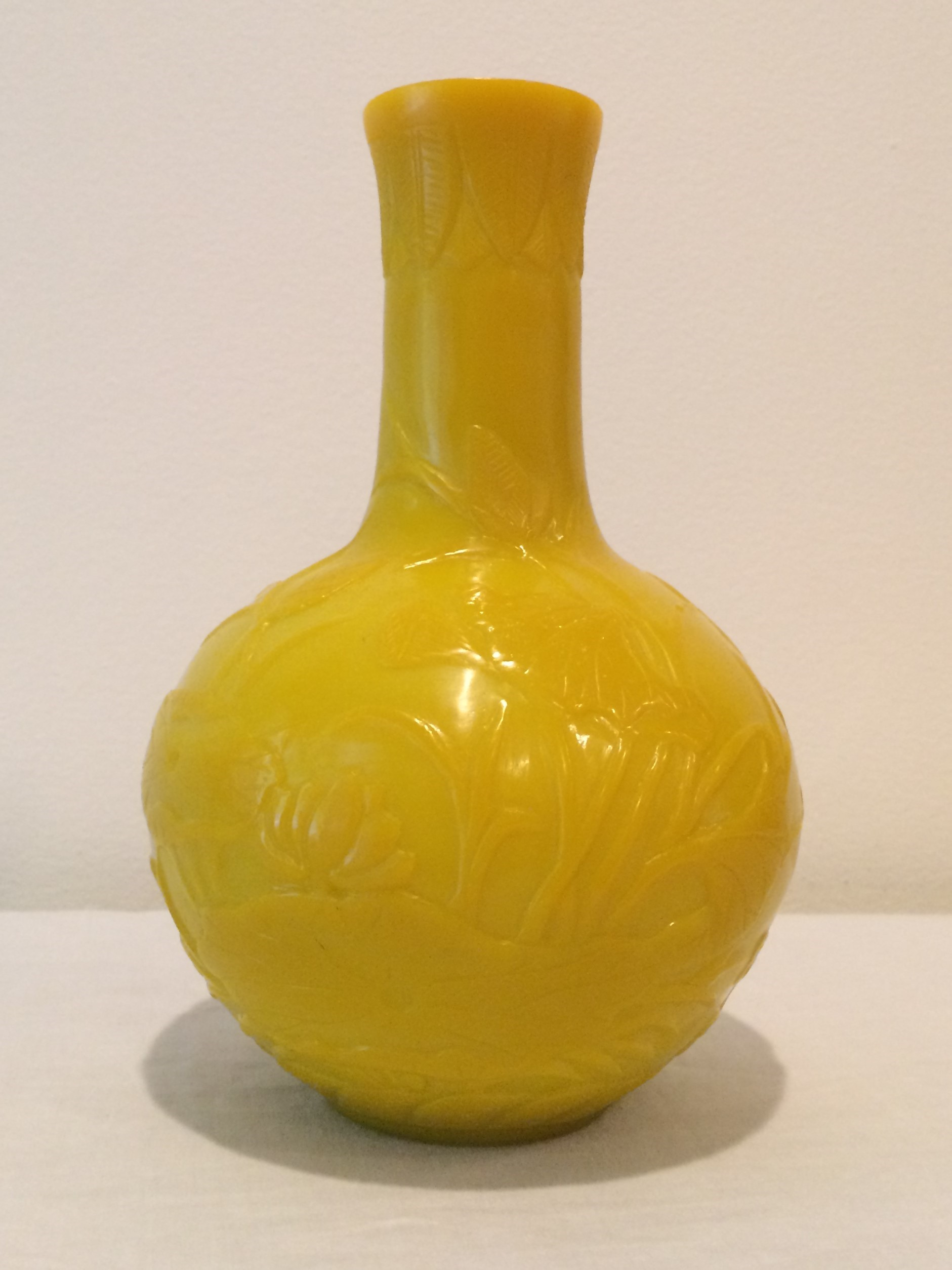 Picture uploaded by the owner of this piece. Age authenticity confirmed by Bunch Auction House and it's relevant associates. Vase dated to 1820s, early in the reign of the Daoguang Emperor of Qing Dynasty China.